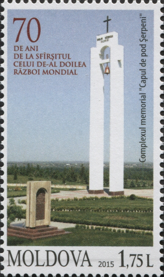 Stamps of Moldova, 2015